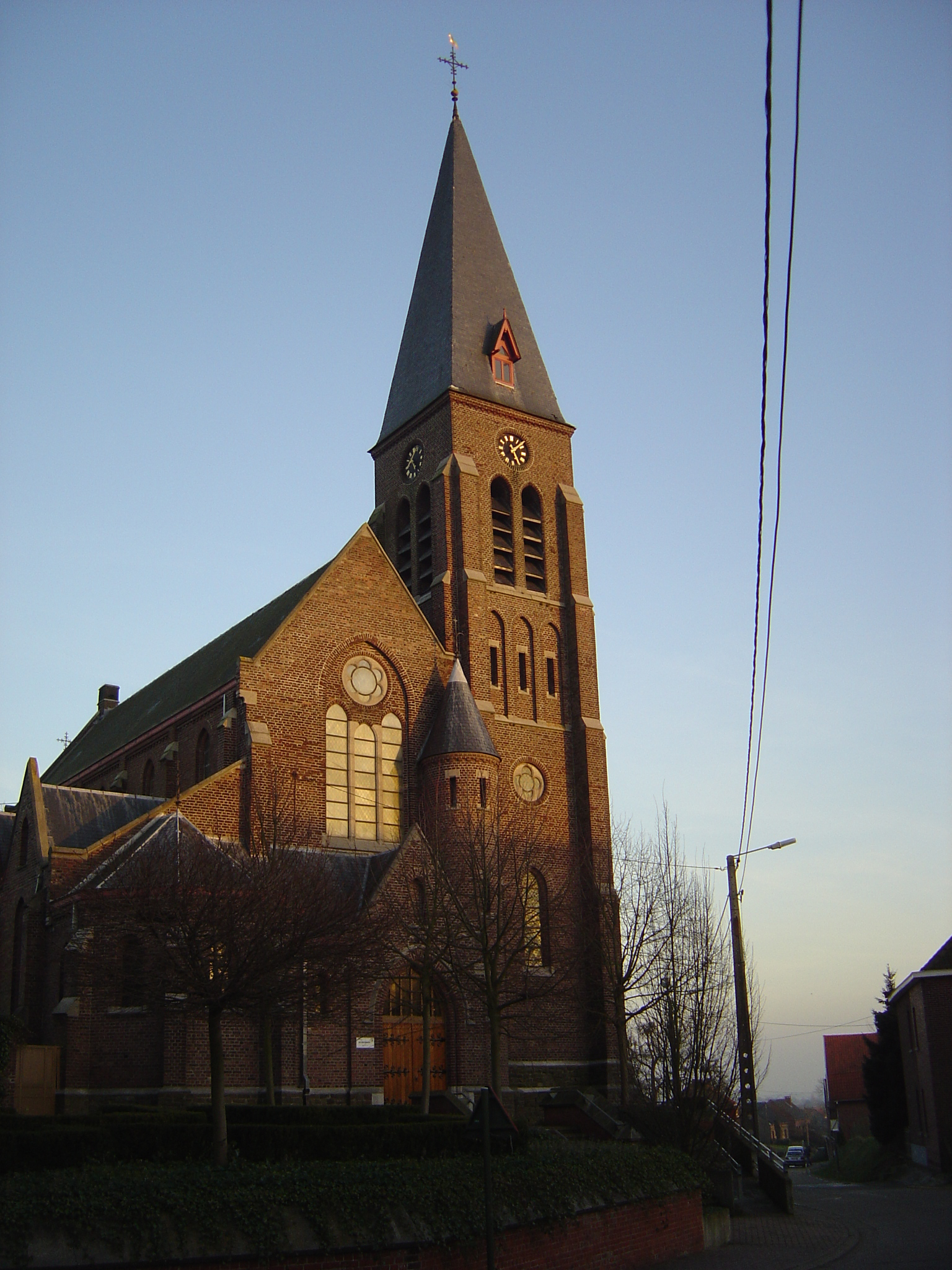 Riemst in Belgium, Church of Sint-Martinus